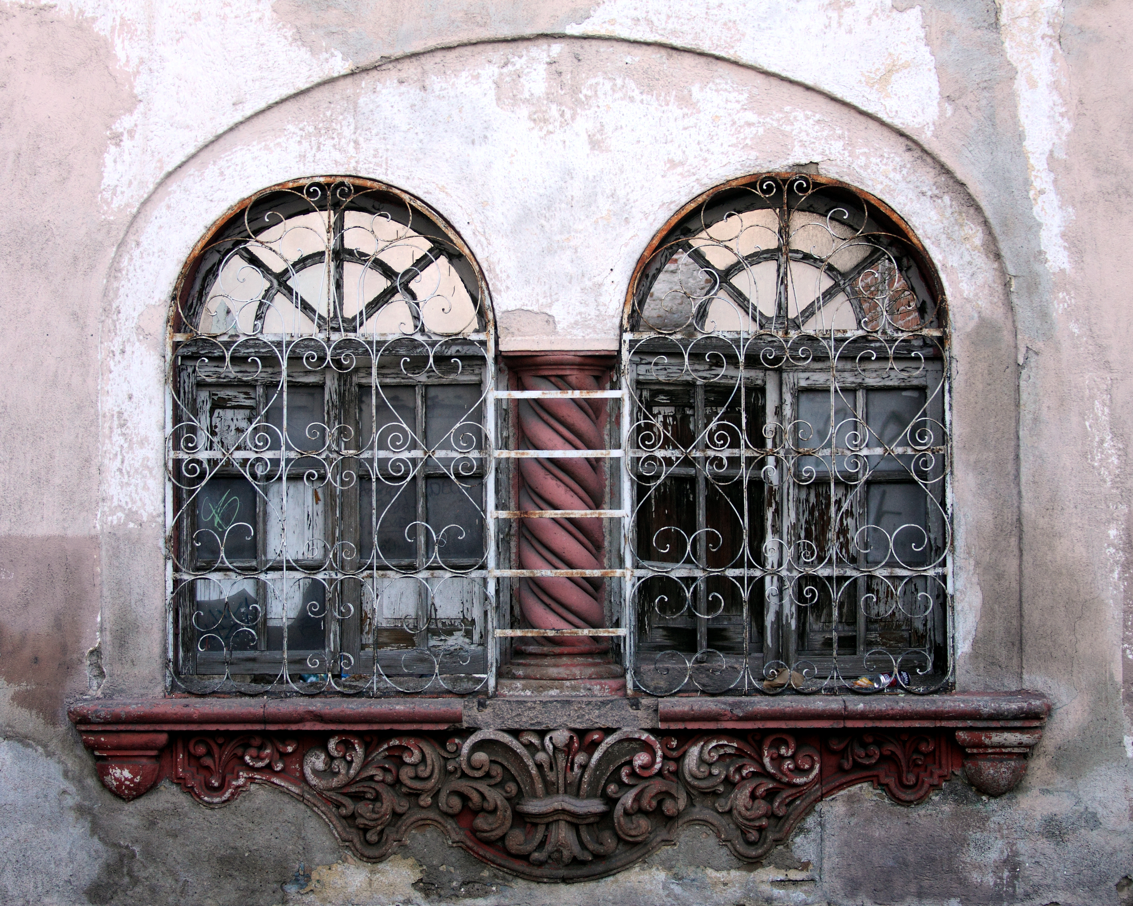 Old window, Mexico.